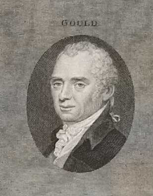 Victors of the Nile (with 15 cameo portraits of naval officers) (proof) As Nelson said after the Battle of the Nile in 1798, ‘Victory is not a name strong enough for such a scene’. His captains are all commemorated in this celebratory engraving published five years later; Thomas Foley, Samuel Hood, Sir James Saumarez, David Gould, Ralph Miller, Sir Edward Berry, Thomas Louis, John Peyton, Henry Darby, George Westcott (killed in the battle), Thomas Thompson, Alexander Ball, Benjamin Hallowell, Thomas Troubridge and Thomas Hardy. Nelson was made Baron Nelson of the Nile, and adopted the motto ‘Palmam qui meruit ferat’ (Let he who has earned it bear the Palm). Victors of the Nile (with 15 cameo portraits of naval officers) (proof)